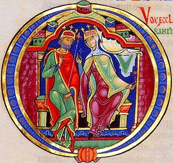 Capital from the Song of Solomon in Winchester Cathedral.